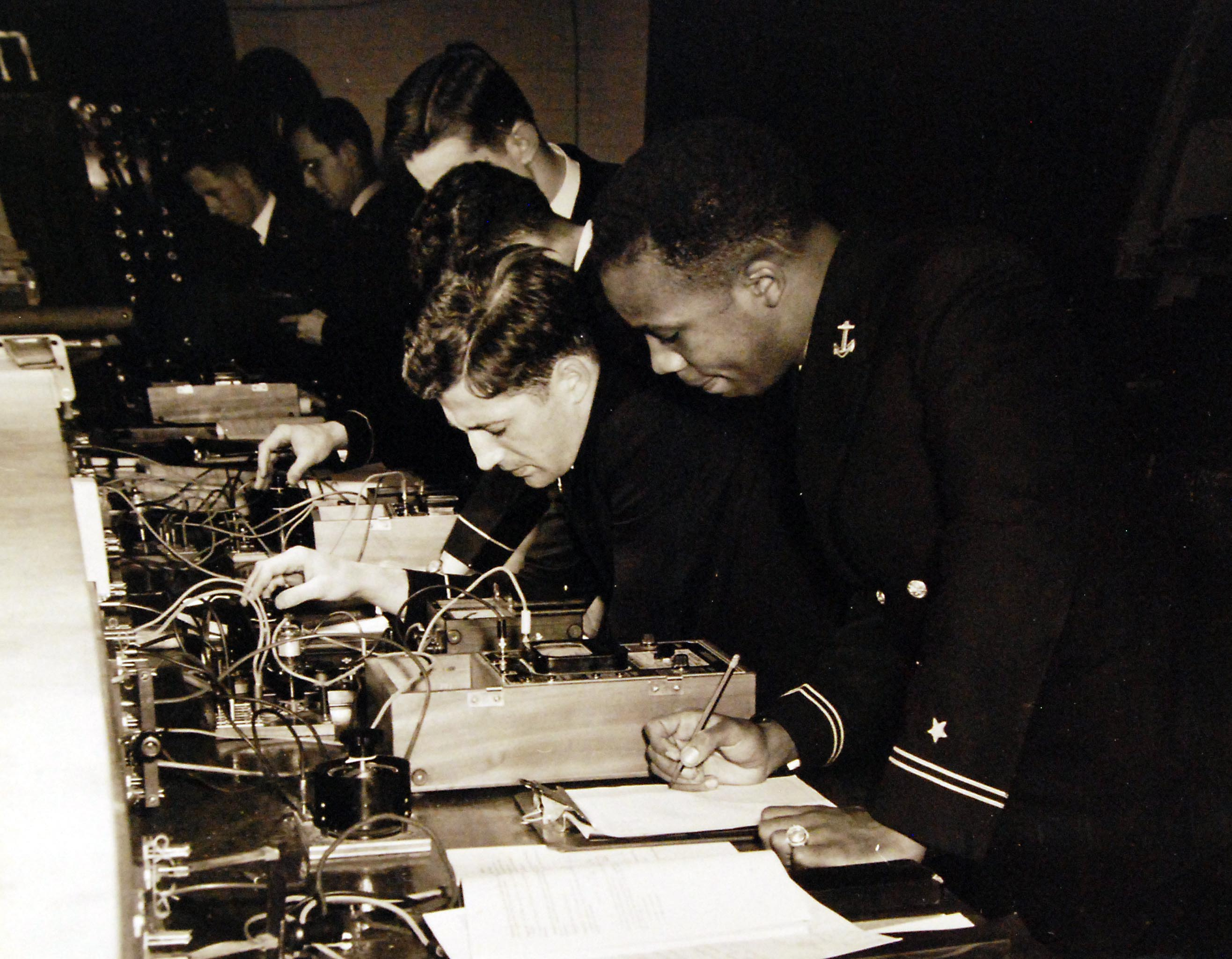 U.S. Naval Academy, Annapolis, Maryland. Shown: Laboratory exercise in Electrical Engineering, released June 3, 1949. In this group is Midshipman Wesley Brown. Note, Brown was the first African-American to graduate from the U.S. Naval Academy and served as a Civil Engineer, retiring in June 1969 with the rank of Lieutenant Commander. Brown died on May 12, 2012. U.S. Navy Photograph, now in the collections of the National Archives. Note, the image is curved.